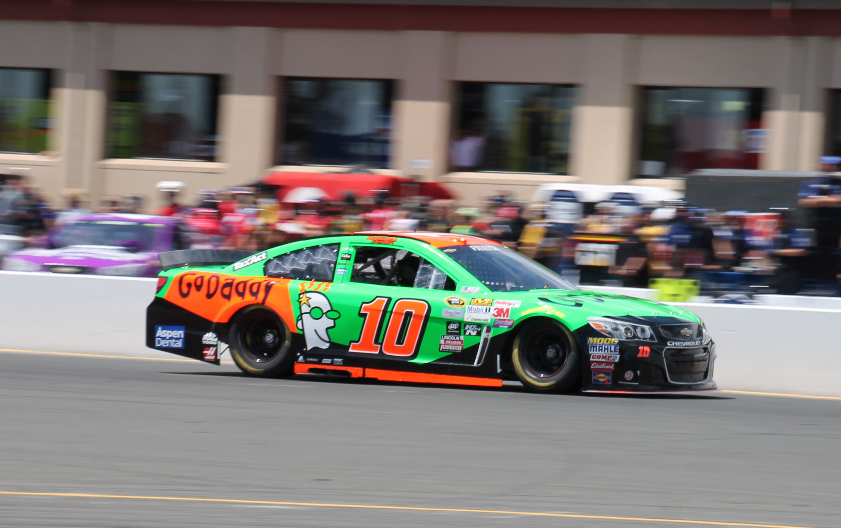 Danica Patrick during 2015 Toyota/Save Mart 350 qualifications. Sonoma, California